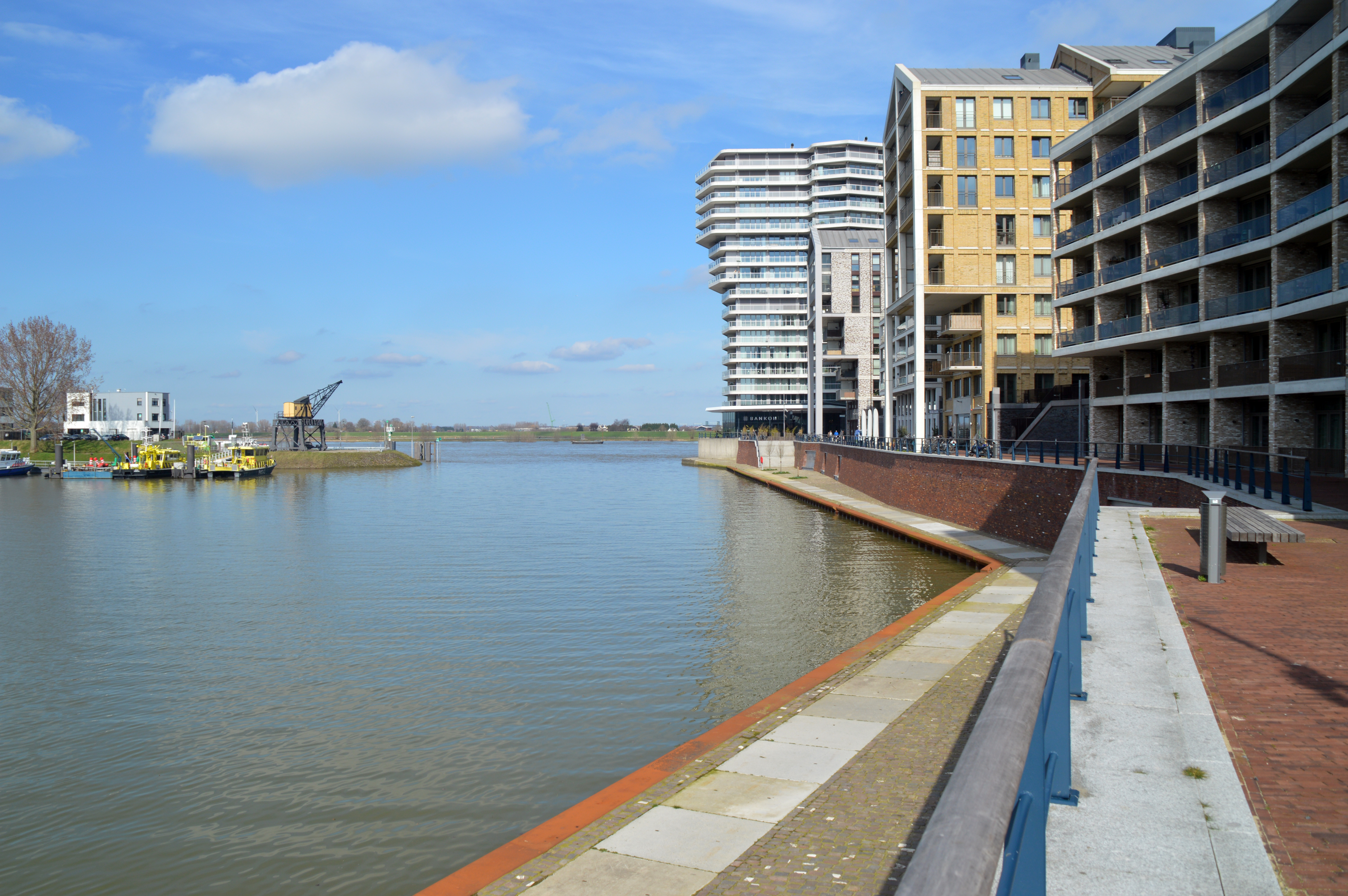 Handelskade Nijmegen Biezen